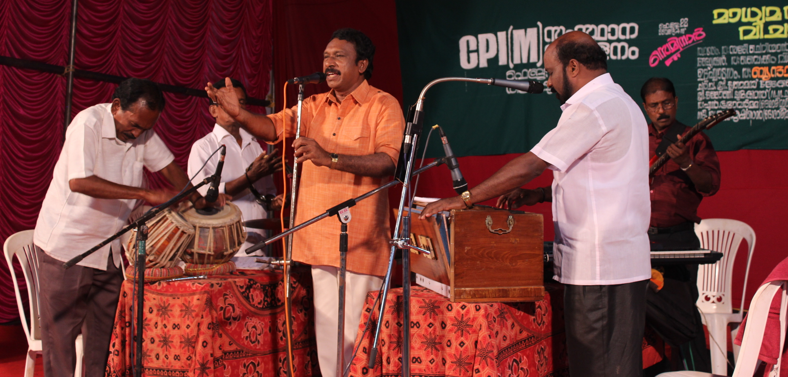 Chirakara Salimkuamar perfoming Kathaprasangam